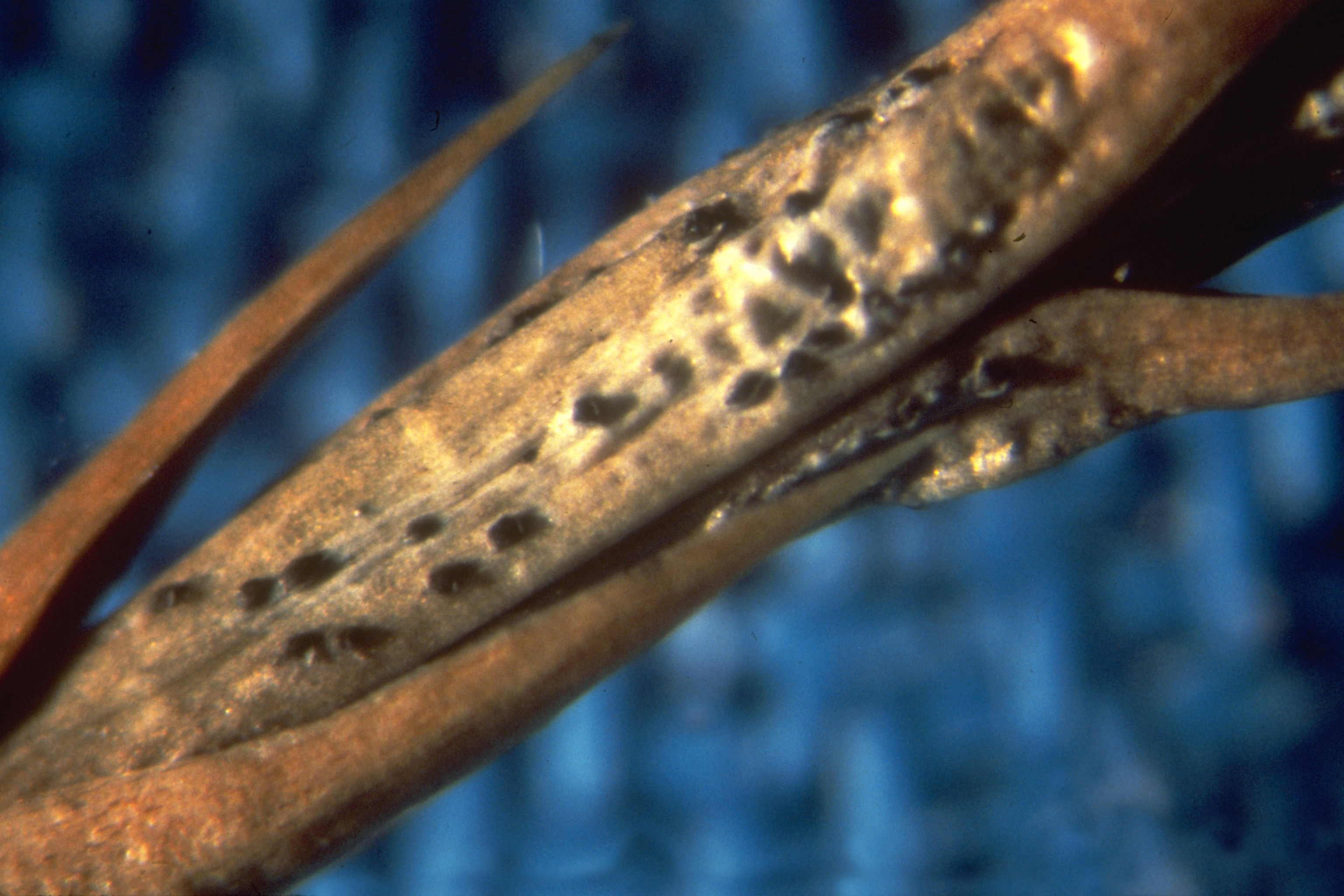 Spores of Didymascella thujina on juniper needles